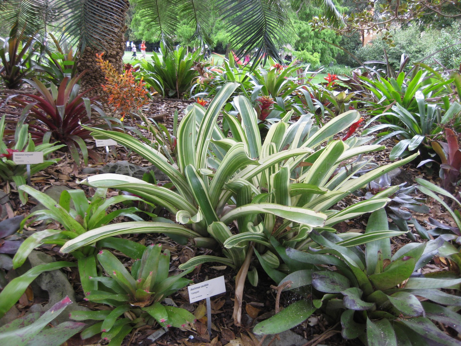 Photographed at the Royal Botanic Gardens Sydney (Australia) in January